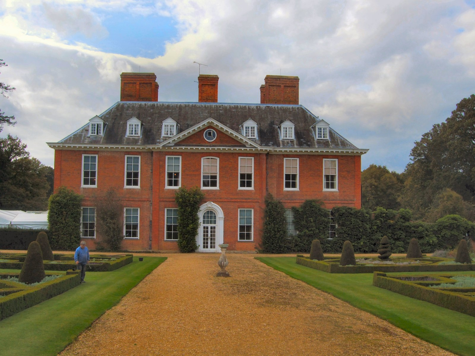 Squerryes Court Manor House